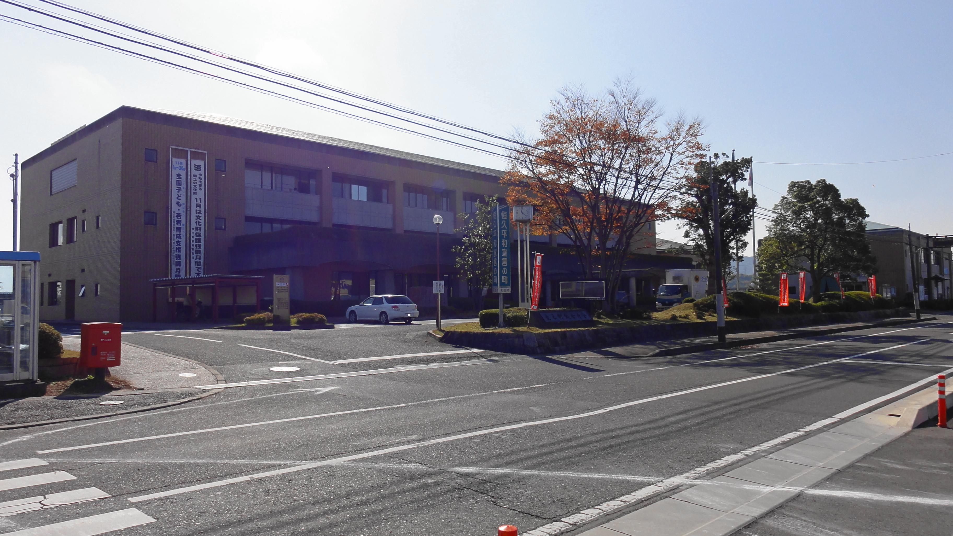 Ryuo town office,Shiga prefecture, Japan